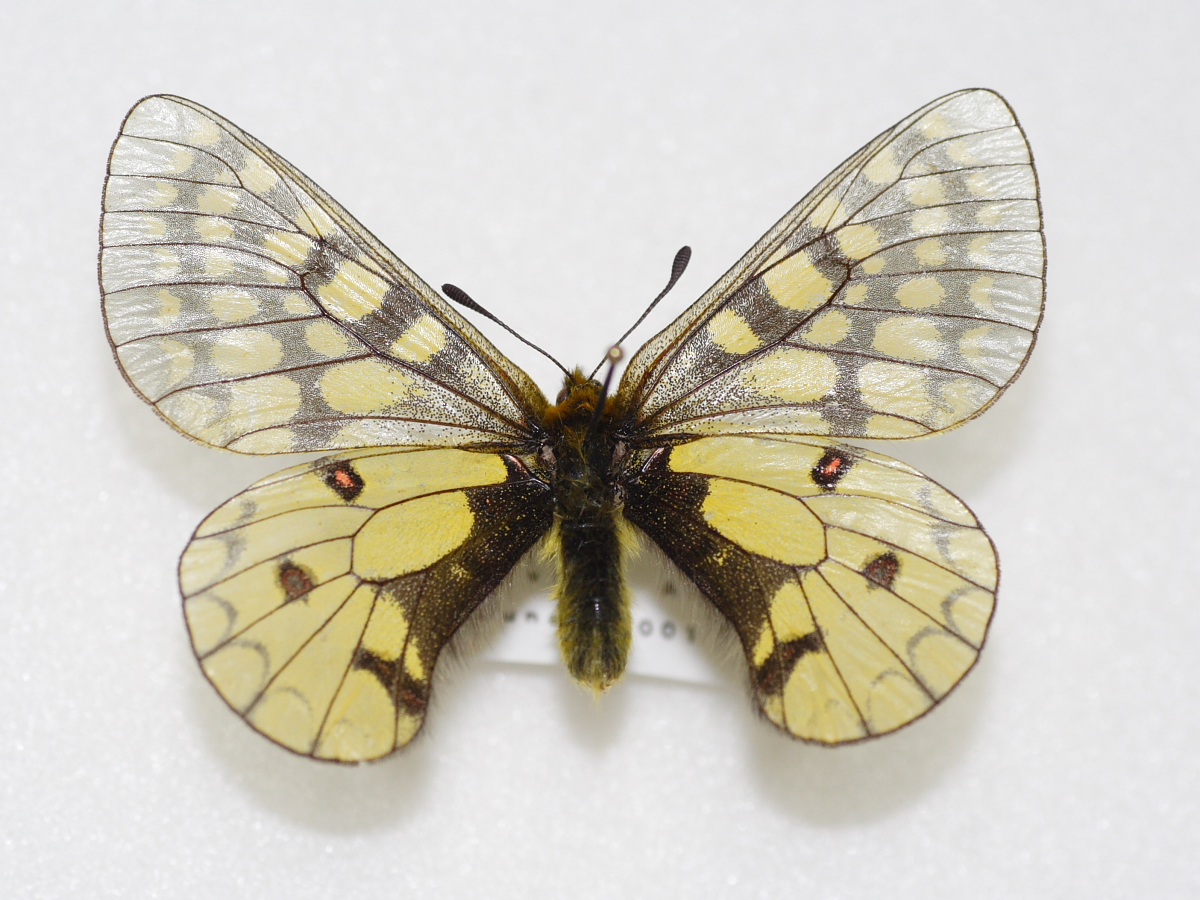 Parnassius eversmanni-(male)This butterfly was captured in Russia. DATE: P.e. septentrio RUSSIA Yakutia Tommot vill. Aldan 5-22 June. 2001